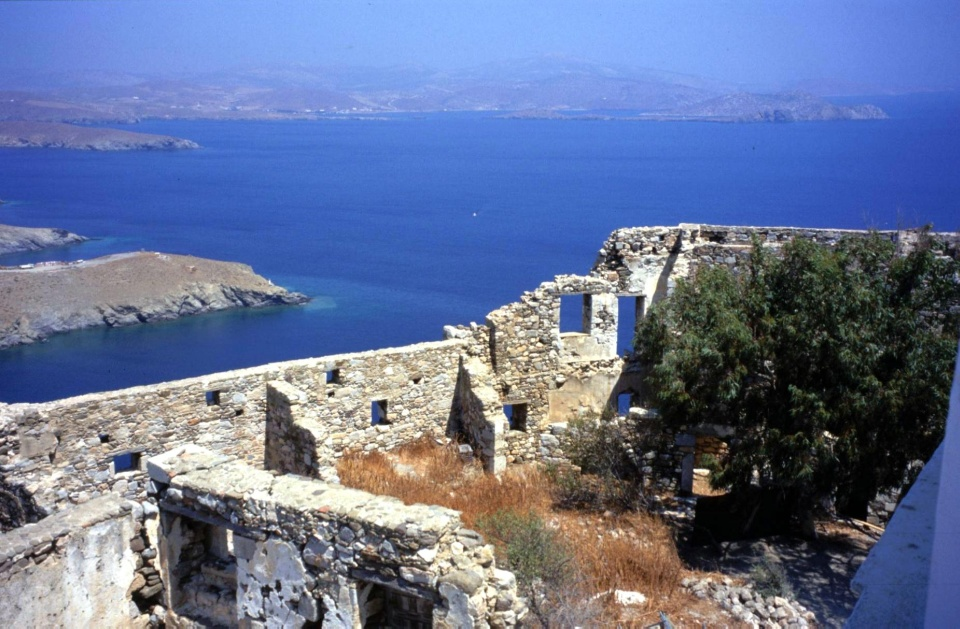 castle in Astipalaia